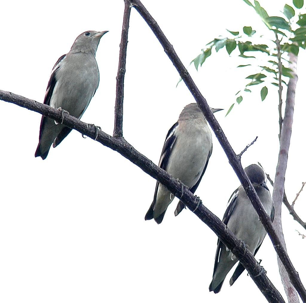 Purple-backed Starling Agropsar sturninus, Bidadari Cemetary, Singapore